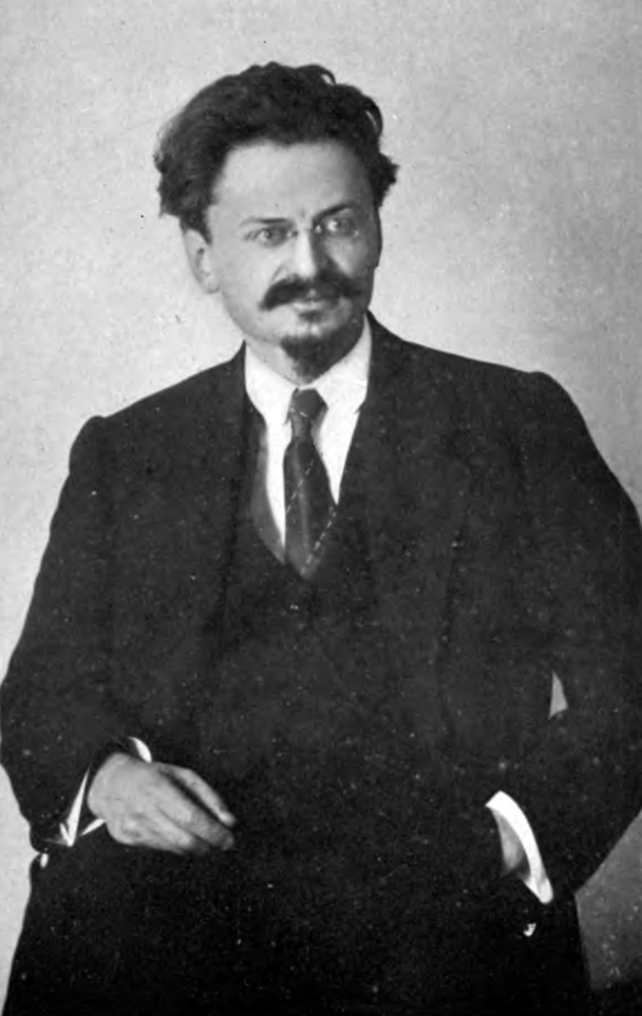 Leon Trotsky, Russian revolutionary leader.